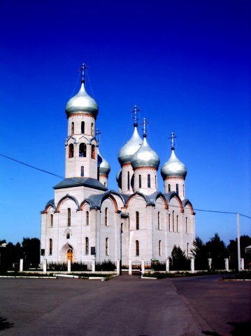 Hramsharypovo